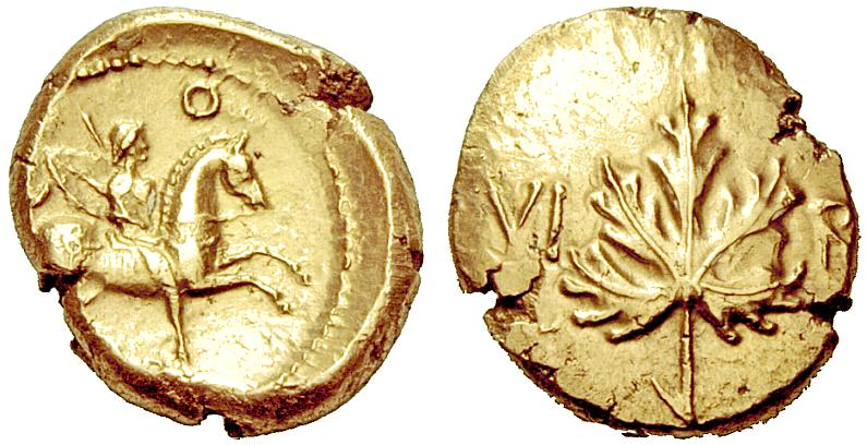 Atrebates. Verica (reigned 10 - 43 AD). Gold stater. Obverse: Mounted warrior bearing shield and sword faces right. Annulet above. Reverse: Vine leaf, legend: VI R[I]. Weight: 5.19g.